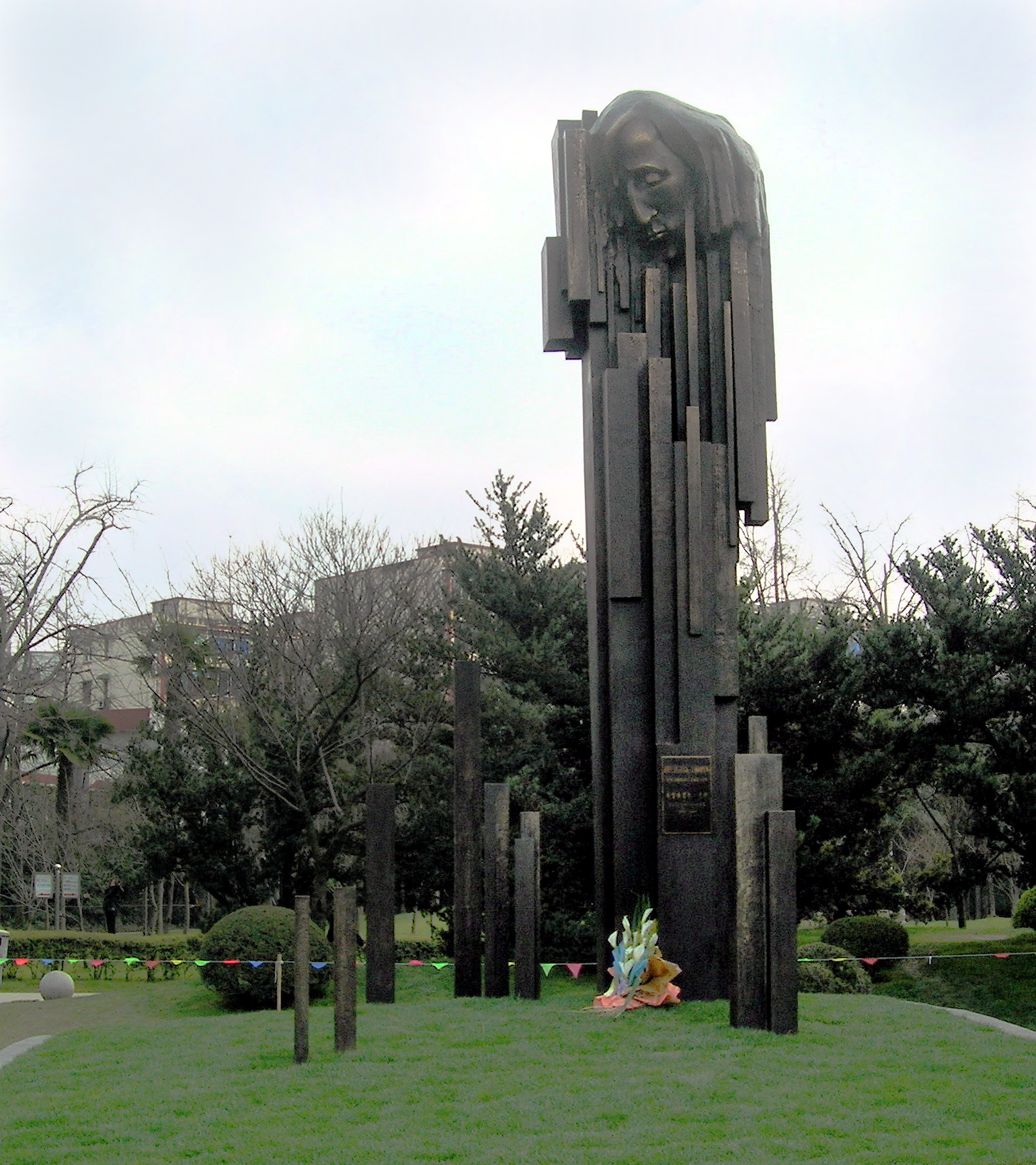 Chopin Monument, Zhongshan Gongyuan, Shanghai